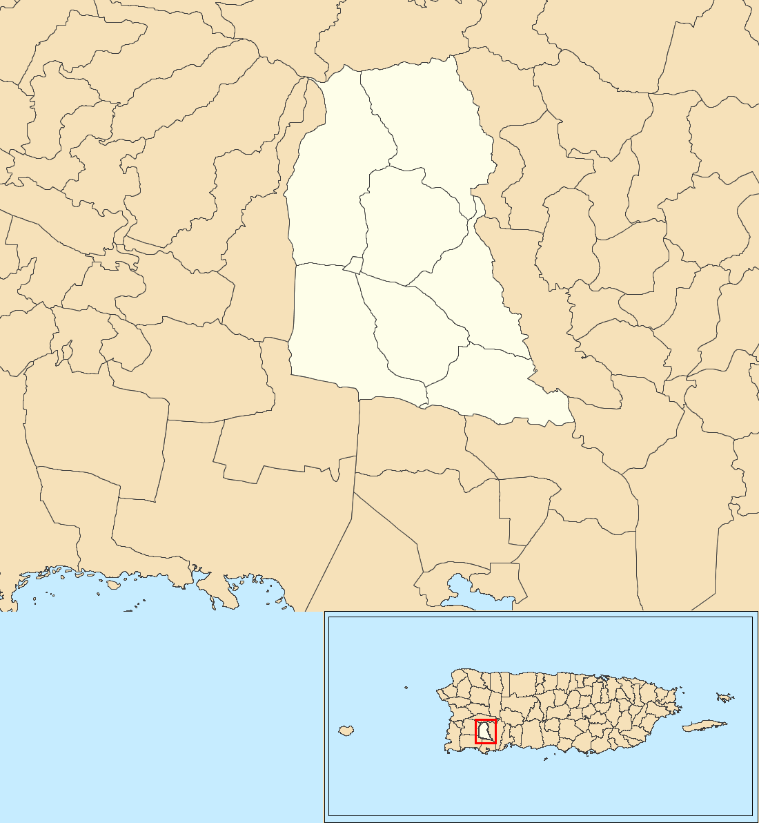 Barrios in the municipality. Map scale is 1:200,000